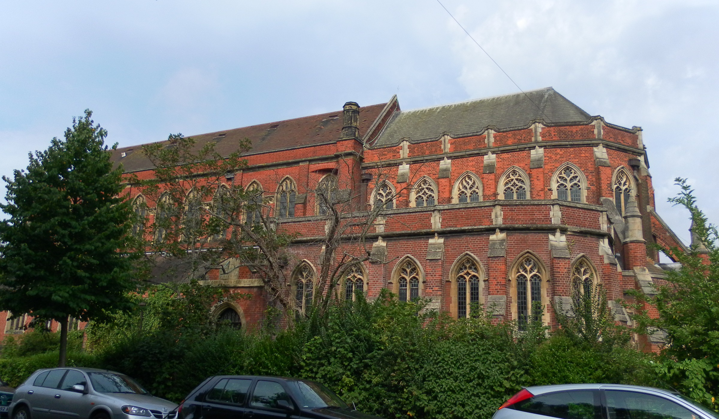 South elevation of St Augustine's Church, Stanford Avenue, Preston Park, City of Brighton and Hove, England. Built in 1896 and extended in 1914, but closed in 2002. Listed at Grade II by English Heritage (NHLE Code 1380950)